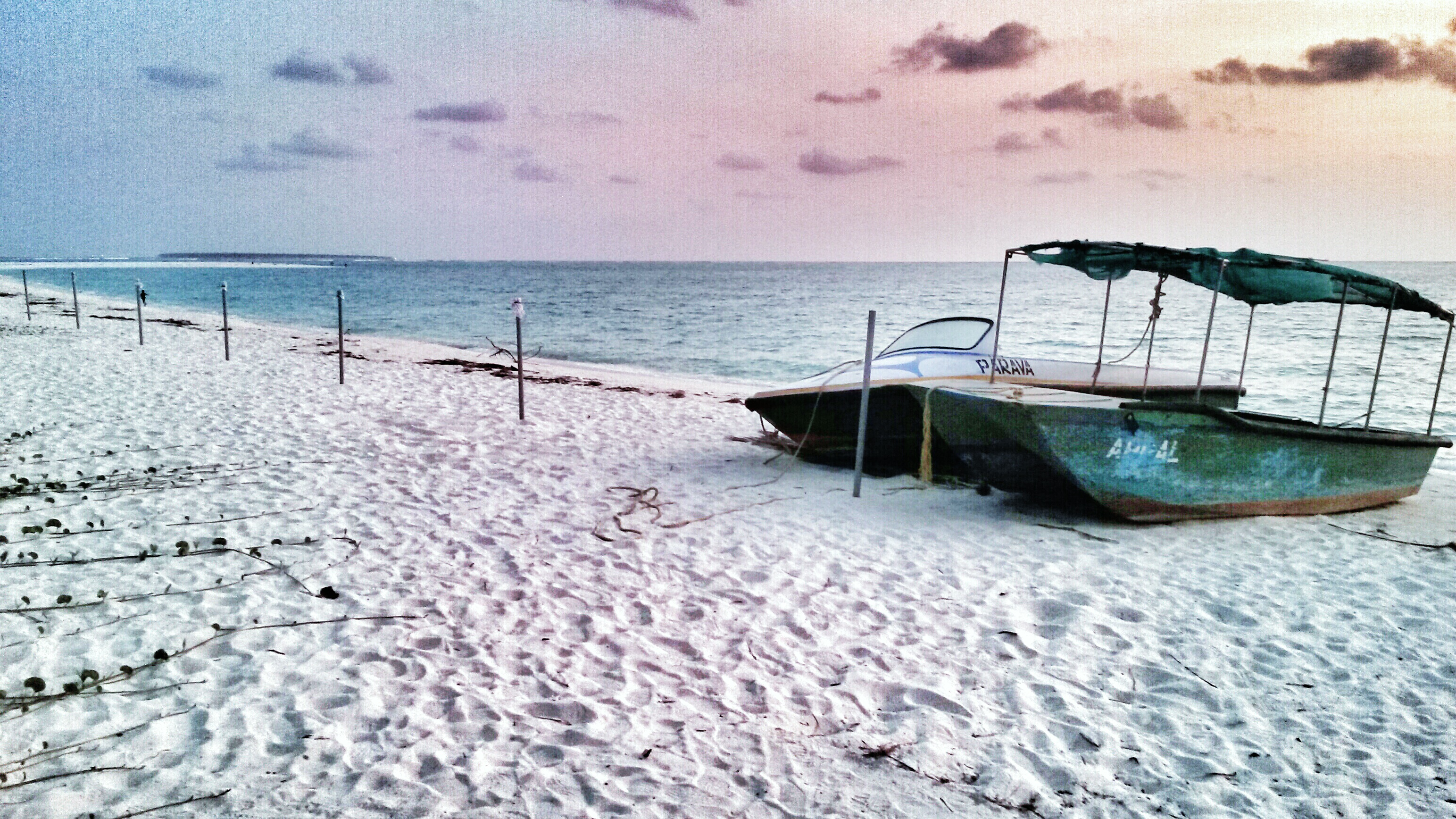 The glass boat is used to sail within the lagoon and the tourists can see the underwater beauty through this. Kadmat Island, Lakshadweep